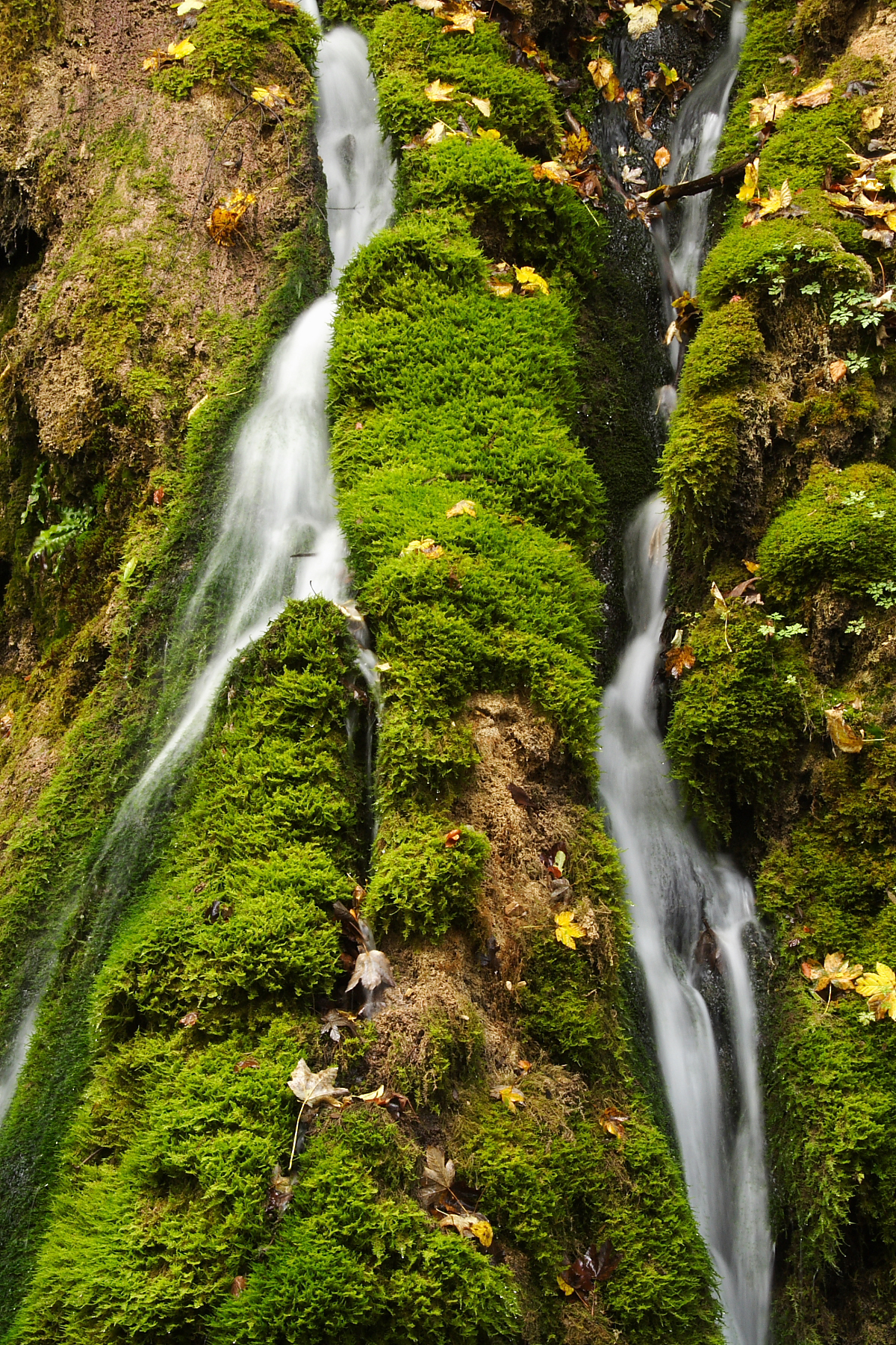 Detail of the Gütersteiner Wasserfall at the Albtrauf near Bad Urach, southern Germany. Water percolates from behind 4 springs in the karst stratum „Kimmeridgian", high above the valley’s bottom. A maximal water surface and the Moss’ photosynthesis accelerate best the chemical precipitation of calcium carbonate from the water.